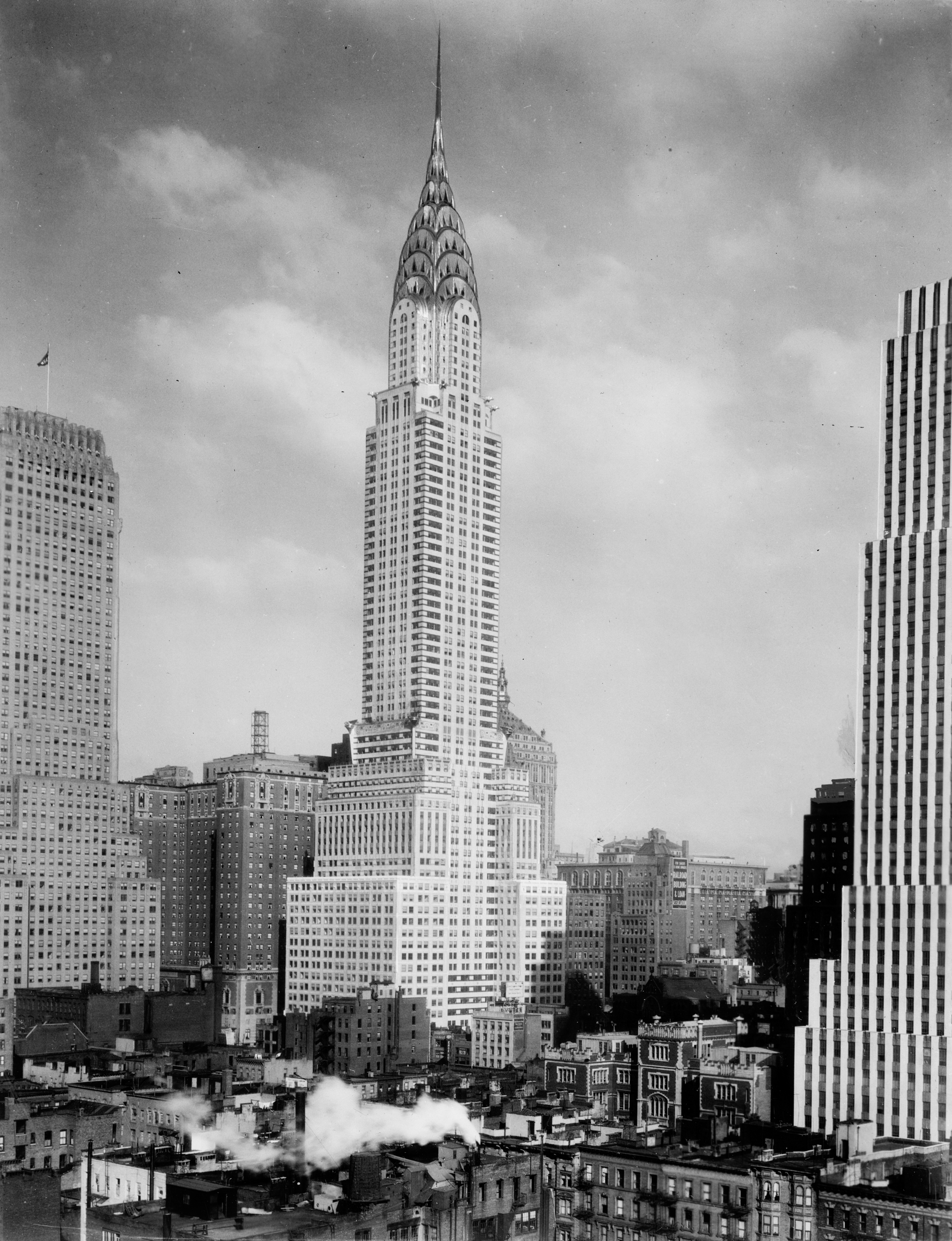 [Chrysler Building, New York, N.Y.]